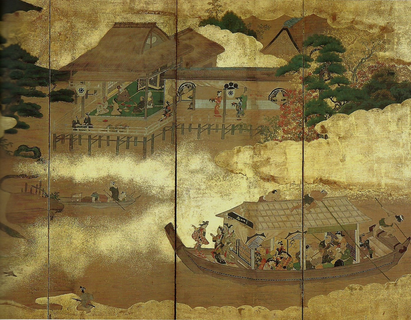 detail from screen Sumidagawa-Ueno